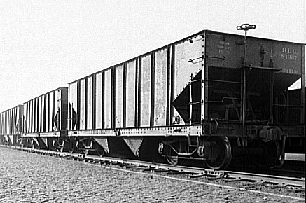 2-bay hopper cars of the Reading Railroad. From the Horydczak Collection at the Library of Congress, which has been released into the public domain.